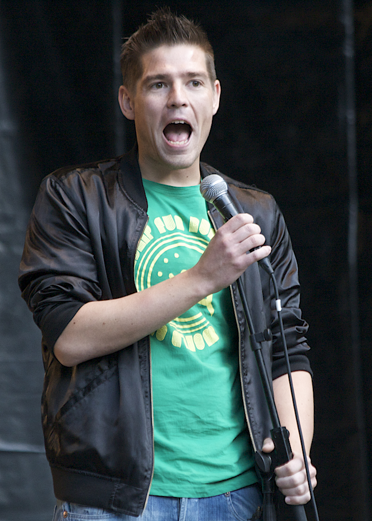 Danish stand-up comedian, Jacob Wilson